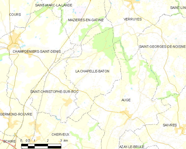 Map of French municipality La Chapelle-Bâton